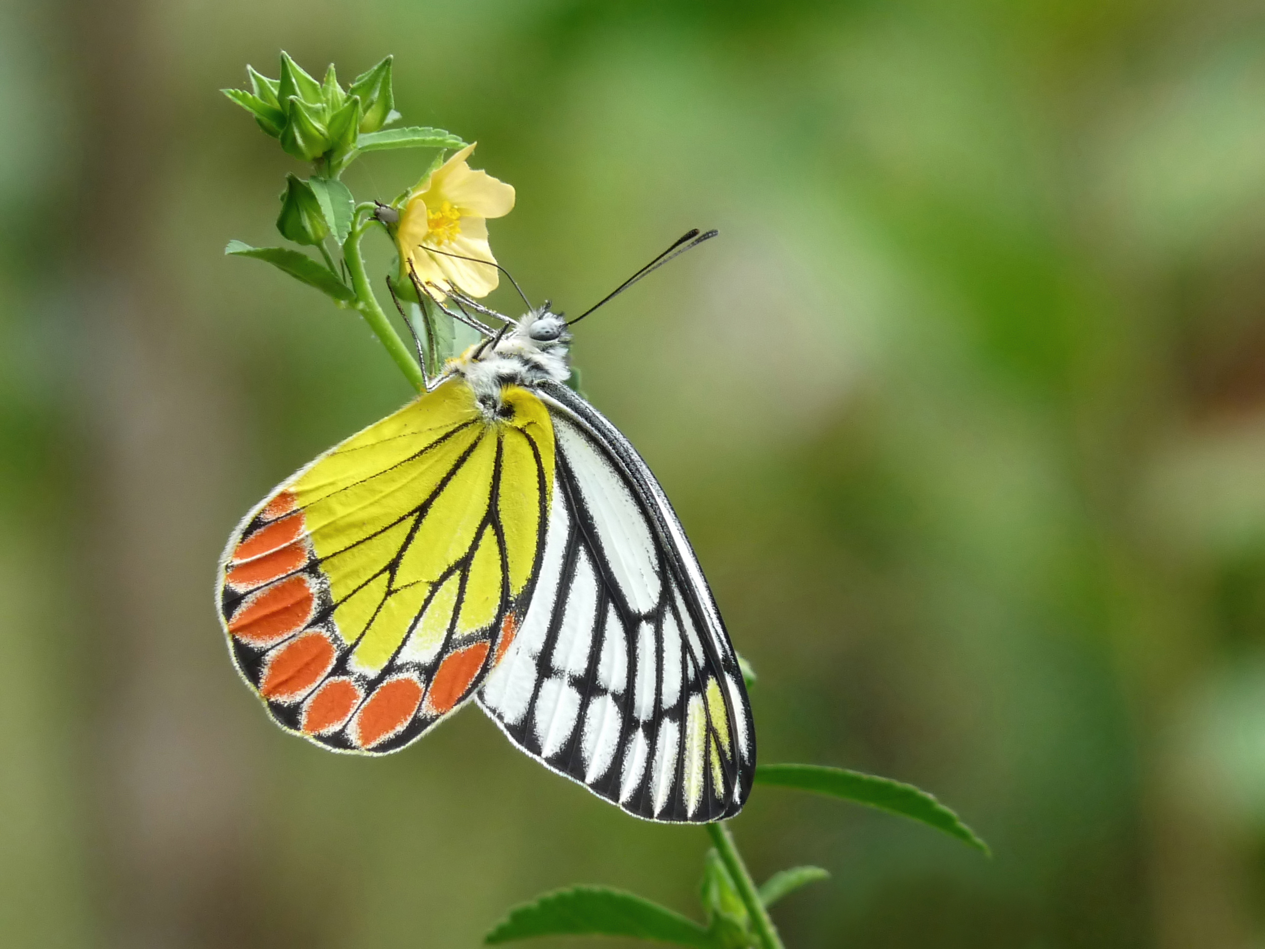 The Common Jezebel (Delias eucharis) is a medium sized pierid butterfly found in many areas of South and Southeast Asia, especially in the non-arid regions of India, Sri Lanka, Myanmar and Thailand. The Common Jezebel is one of the most common species in the genus Delias. This individual is male. Taken at Kadavoor, Kerala, India